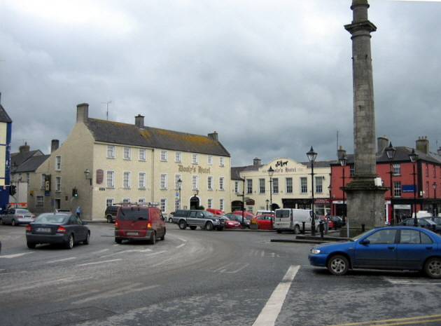 Dooly's Hotel